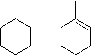 Exocyclic